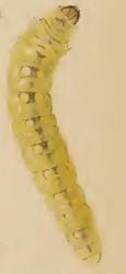 Stainton’s Natural History of the Tineina (1855–1873): Elachista quadrella larva